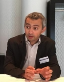 .Senior journalist Ahmed Benchemsi in an exclusive interview with The Oslo Times Senior Media Advisor Matthew Alan Classen